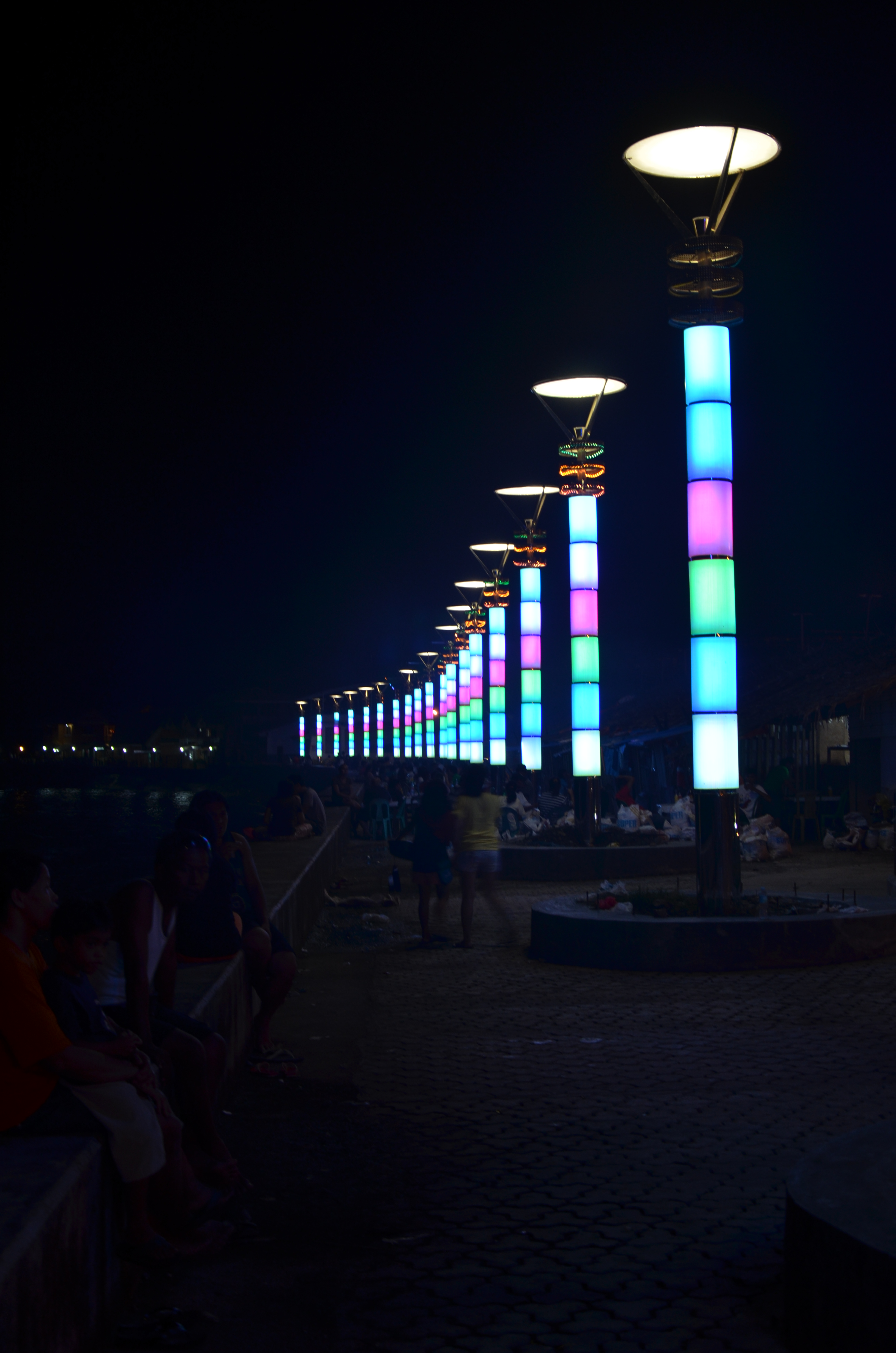 Lights in Boulevard, Tandag City